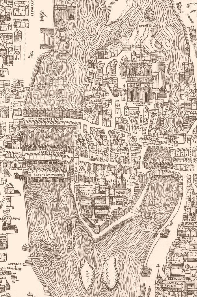 Extract from map of Paris (île de la Cité)